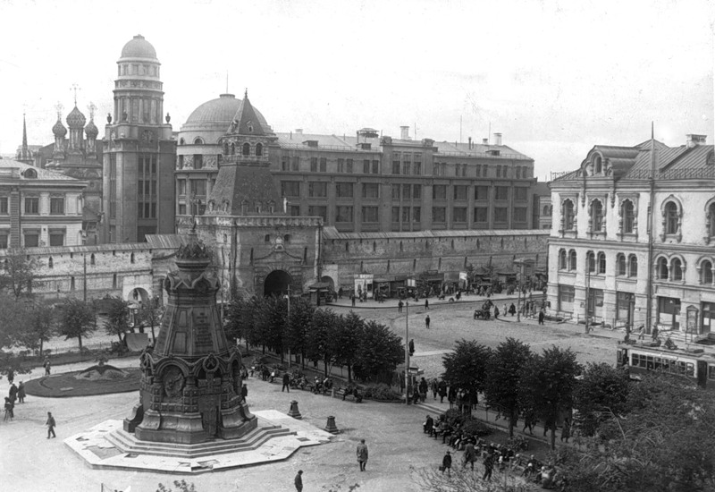 Ilyinsky gates square in 1929